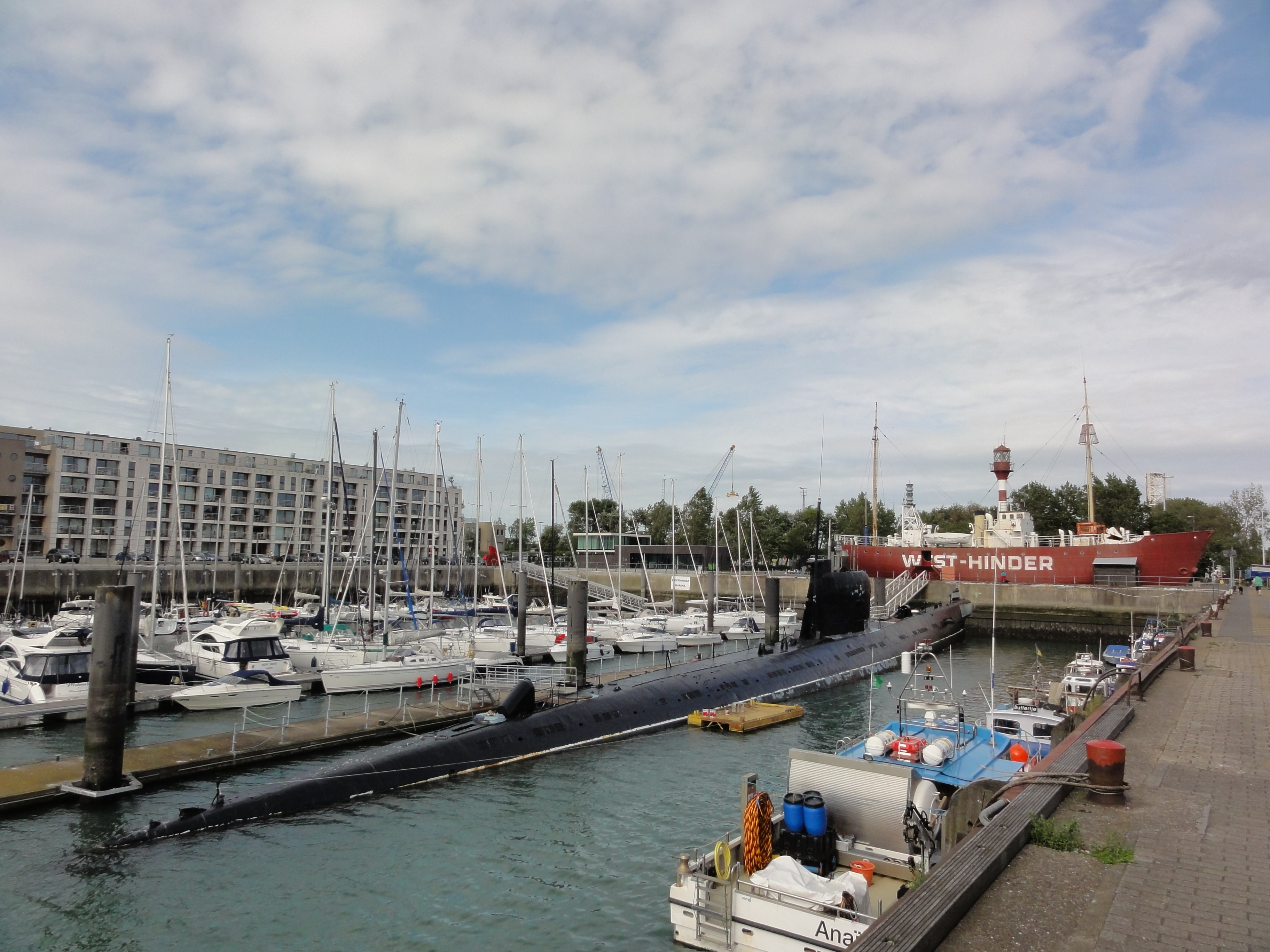 Lightship West-Hinder 2 and Russian submarine Foxtrot in Zeebrugge. Zeebrugge, Brugge, West-Flanders, Belgium